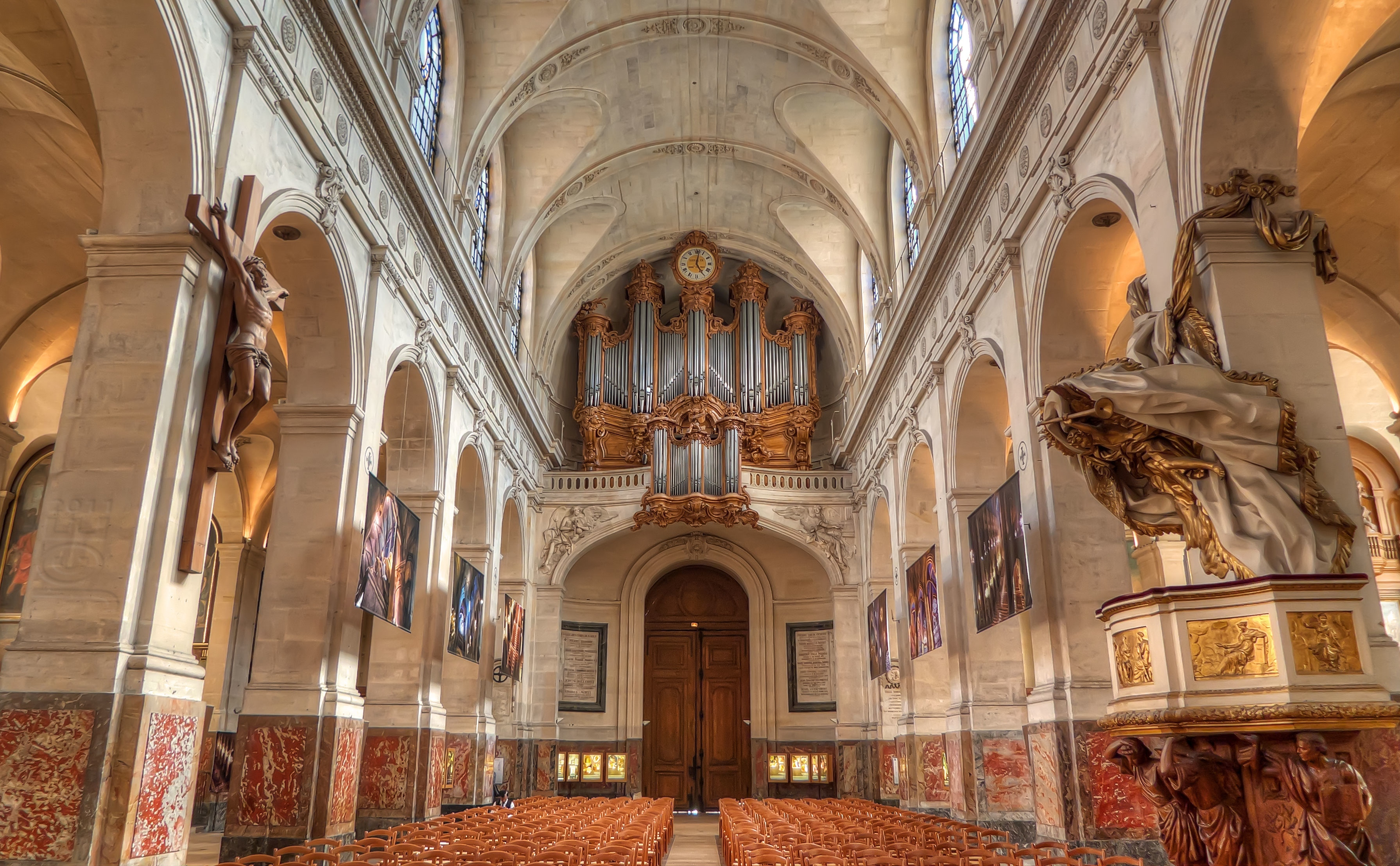 Saint-Roch church in Paris. Looking back towards the entrance showing the organ pipes above the door.